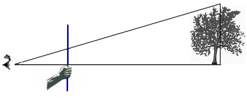 Drawing of the principle, how to measure the height of trees with a stick, used by wood workers. Self created 2007 by Dr. Wessmann